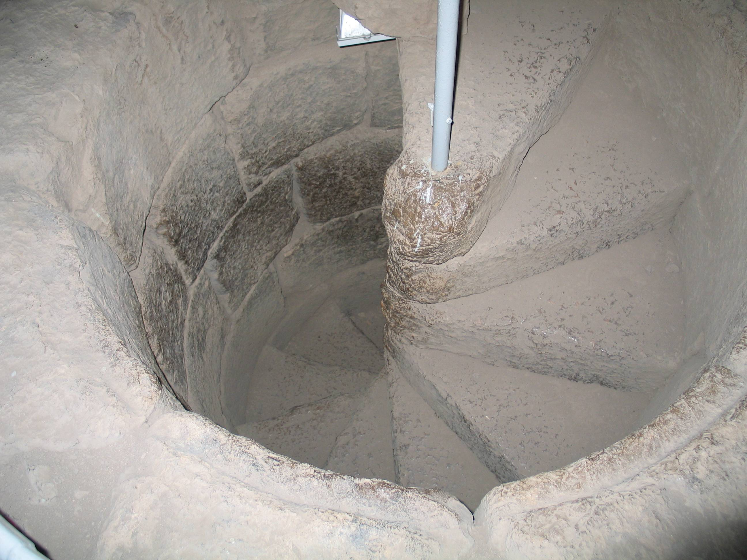 Nimrod fortress, inside the southwestern tower.